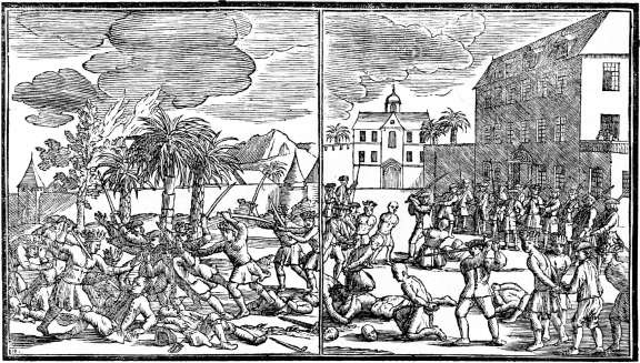 A drawing of the 1740 Batavia massacre